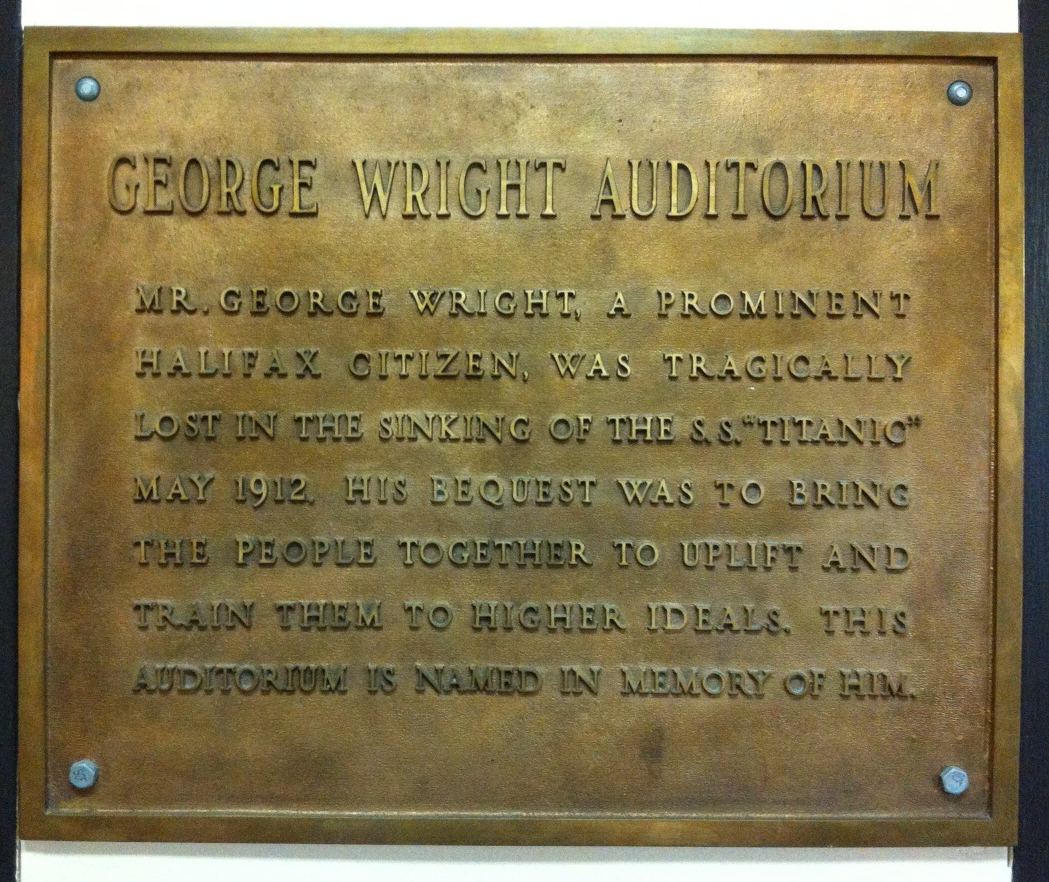 George Wright Plaque, YMCA, Halifax, Nova Scotia